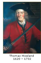 A Picture of a Royal Pensioner "invalid" soldier stationed at the Royal Hospiate of Chelsea. This image is courtesy of and may be found at